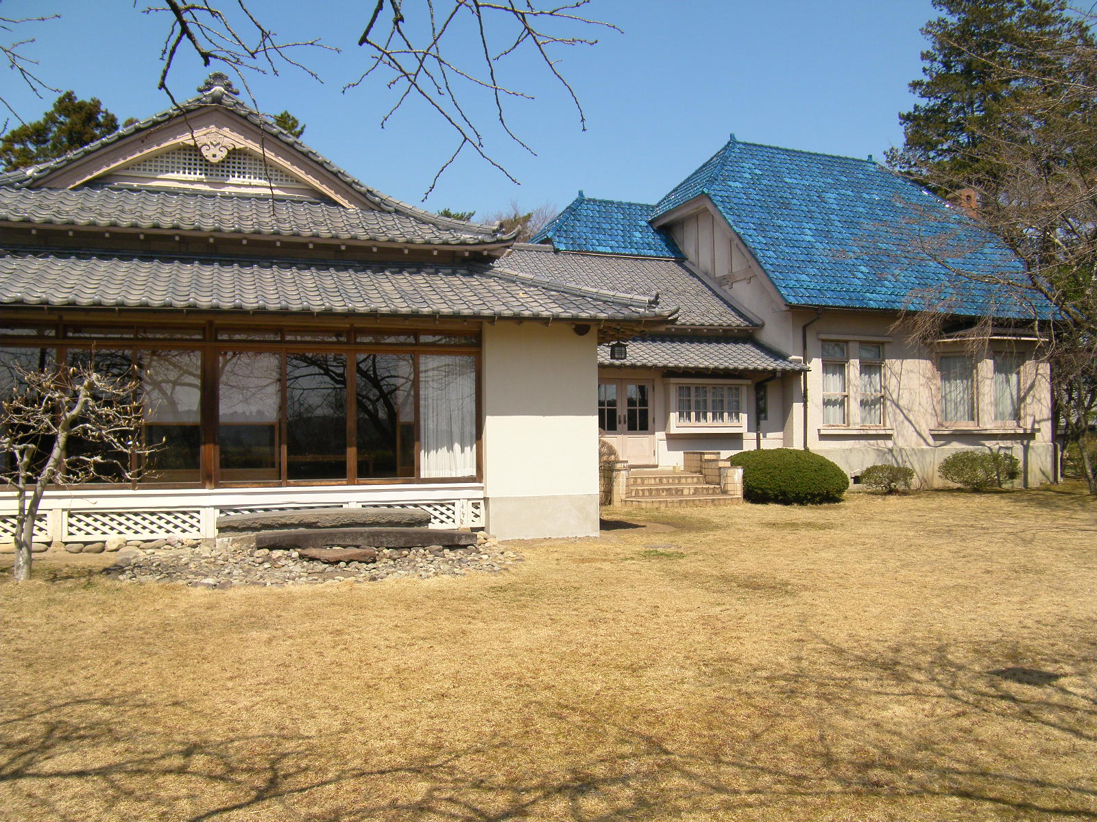 The garden of the Miyagi Prefecture Governor's Official House. Hirose-machi, Aoba ward, Sendai, Miyagi prefecture, Japan.